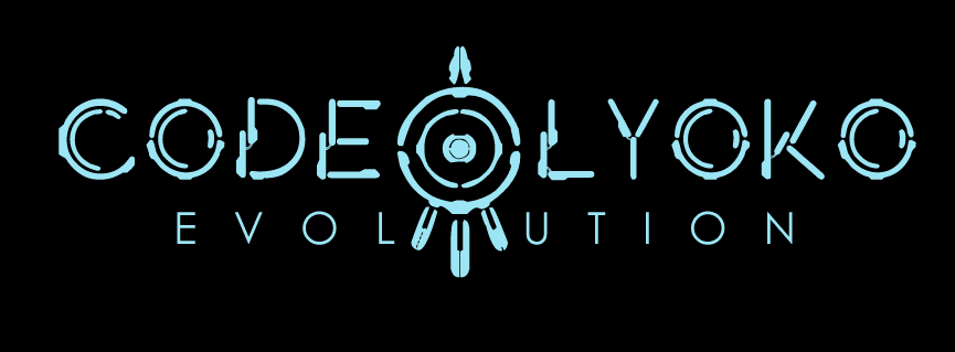 Logo of Code Lyoko: Evolution, using CL EvoluFont and Century Gothic fonts.